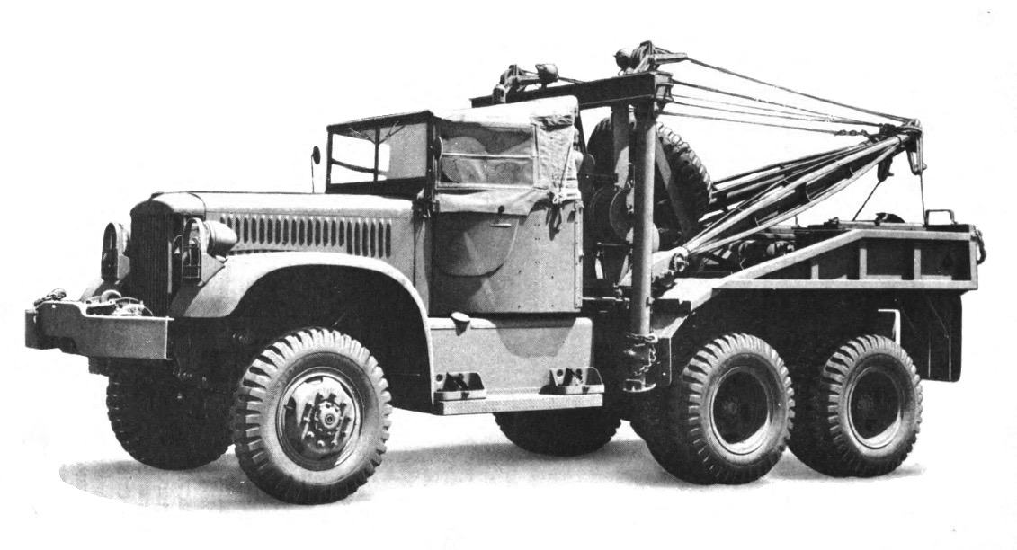 Diamond T Model 969A 4-ton 6x6 Wrecker Truck